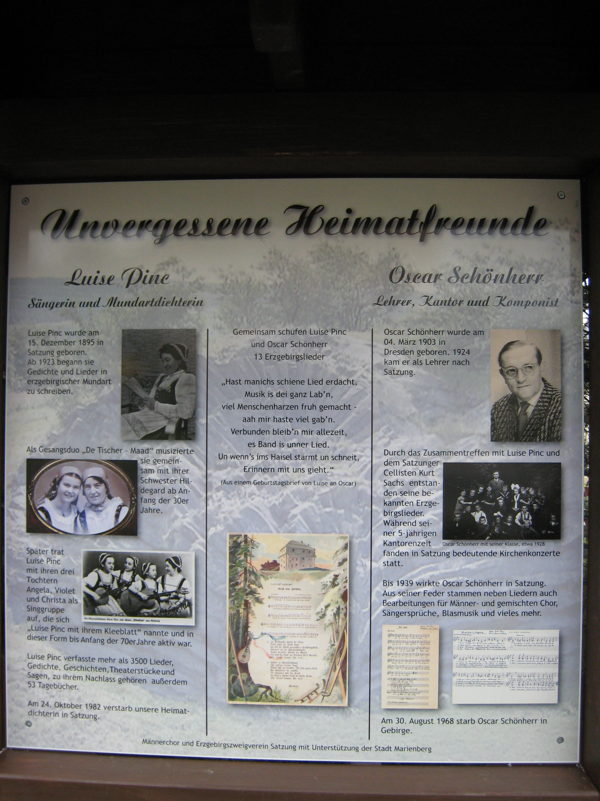 Plaque for Oscar Emil Schönherr